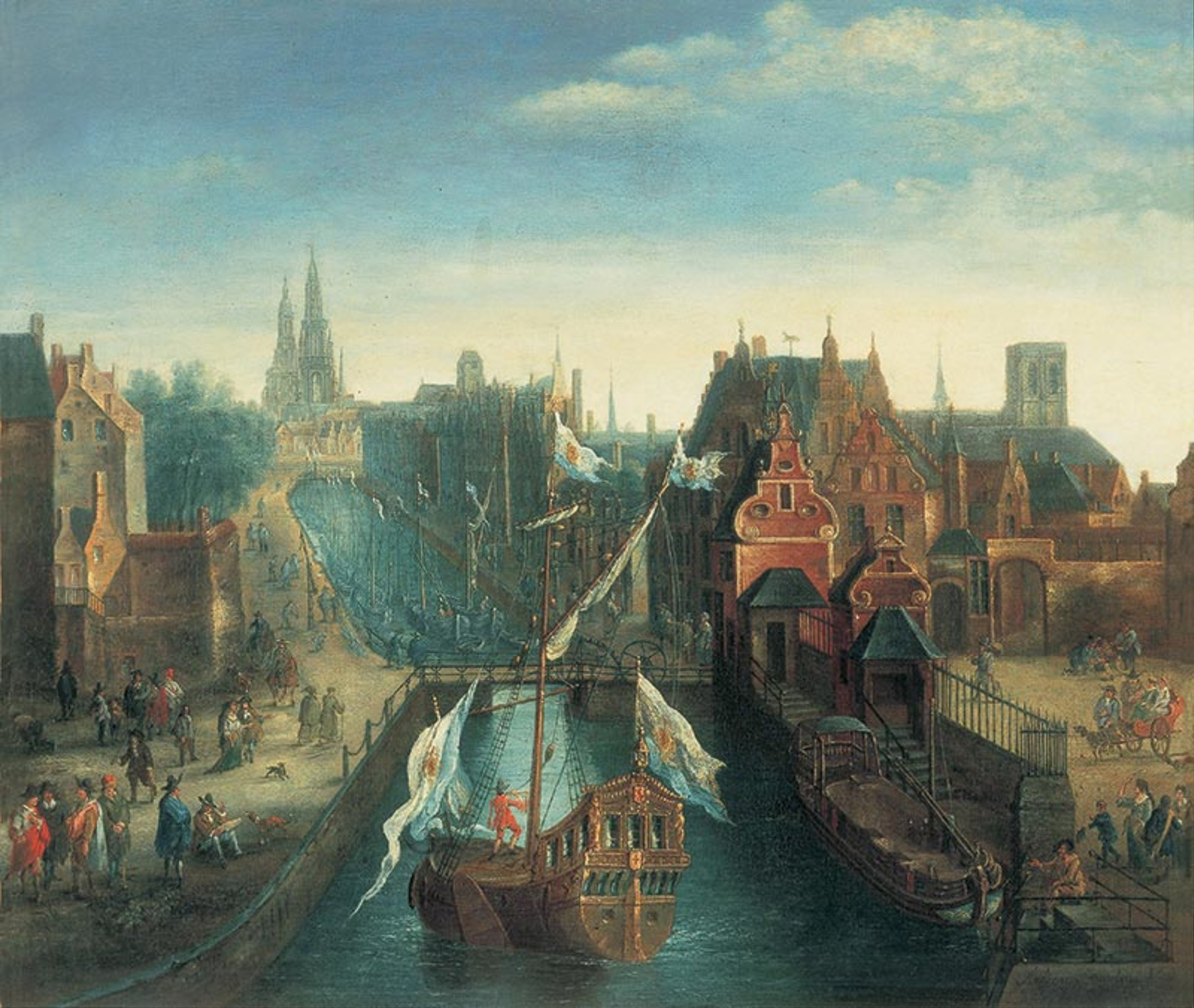 Port of Brussels, Andreas Martin, mid-18th century